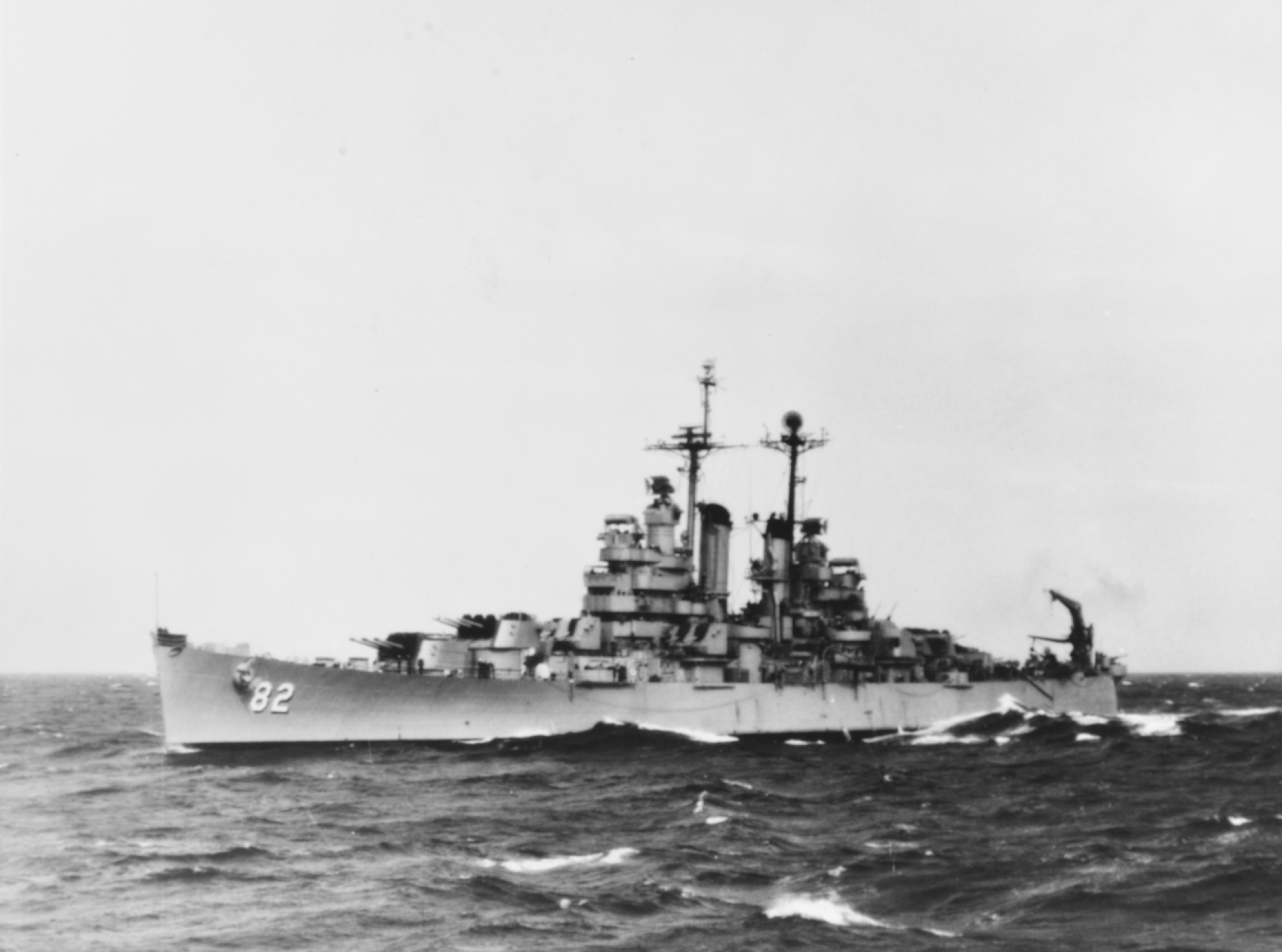 The U.S. Navy light cruiser USS Providence (CL-82) underway in the Mediterranean Sea. She was deployed to the U.S. 6th Fleet in the Mediterranean from 23 September 1948 to 14 January 1949, before she was decommissioned on 14 June 1949.